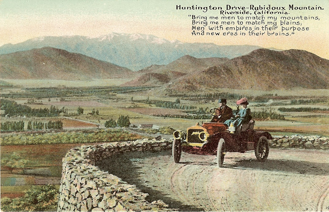 Post card depicting sightseers in an early automobile on the way up Mount Rubidoux, in Riverside, California, via Huntington Drive, circa 1910.